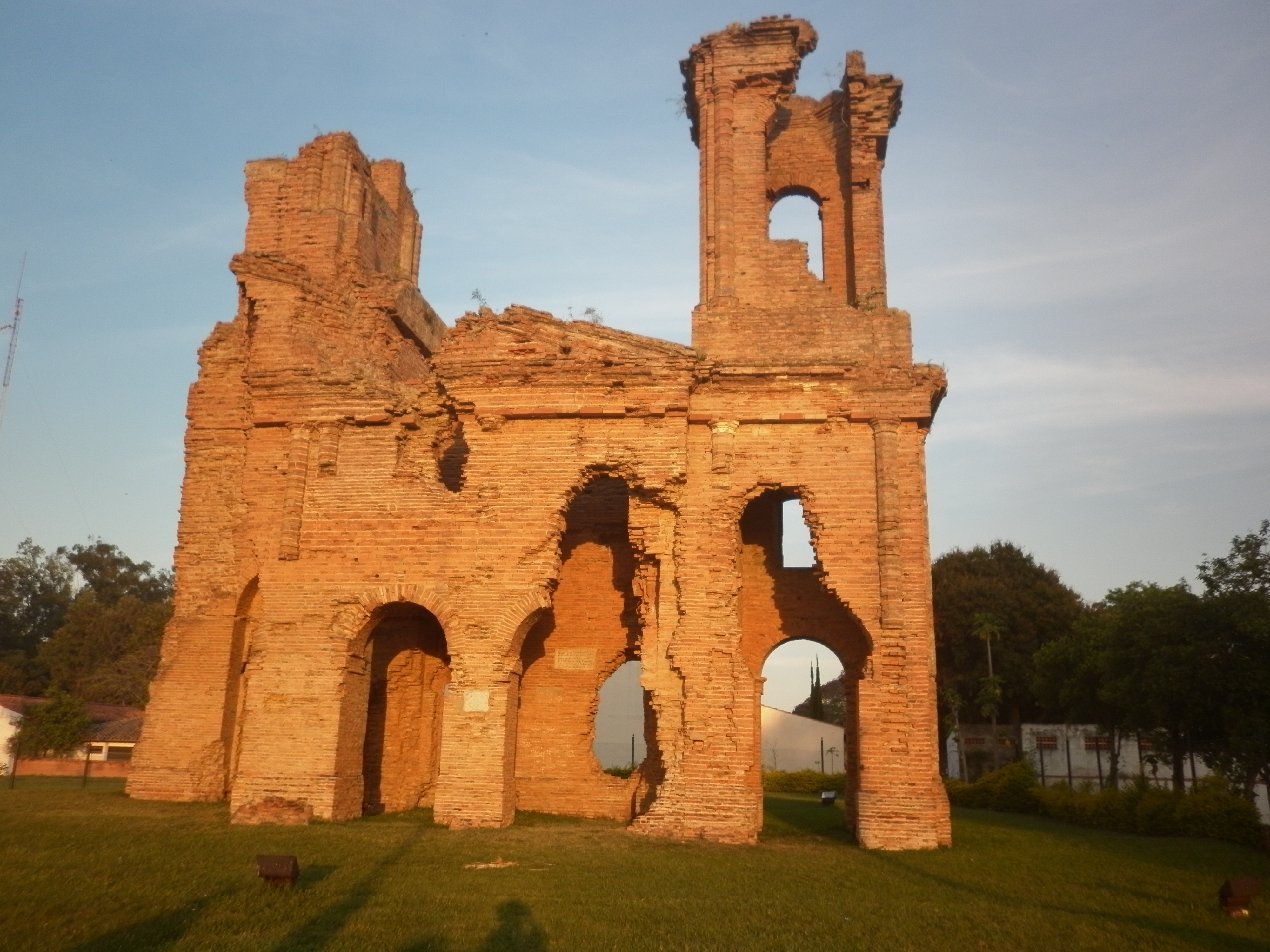 The ruins of the church of San Carlos Borromeo, Humaitá, destroyed by Allied gunfire in the War.